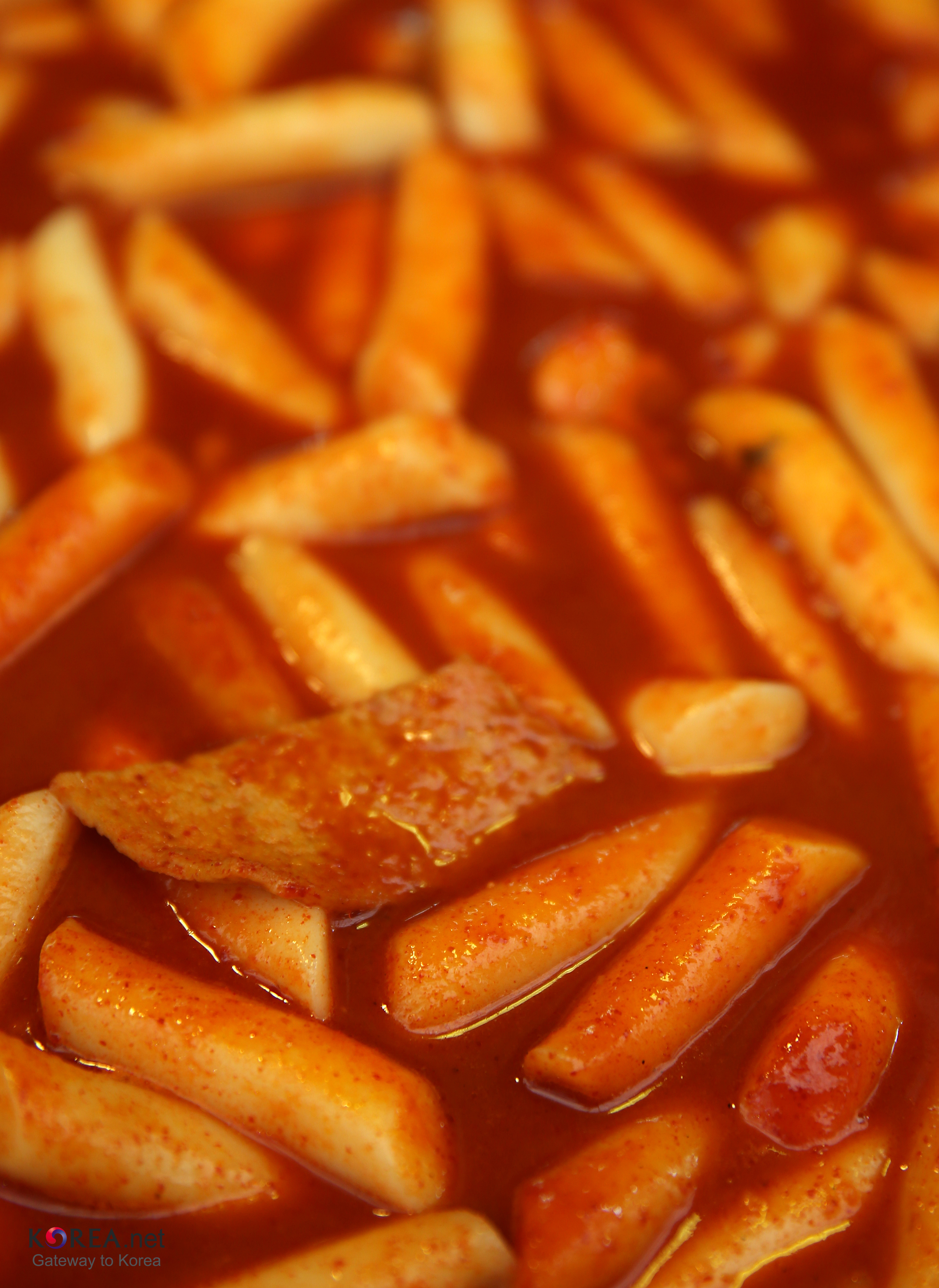 Photographic Sketch of Junggok Traditional Market. Junggok-dong, Gwangjin-gu, Seoul